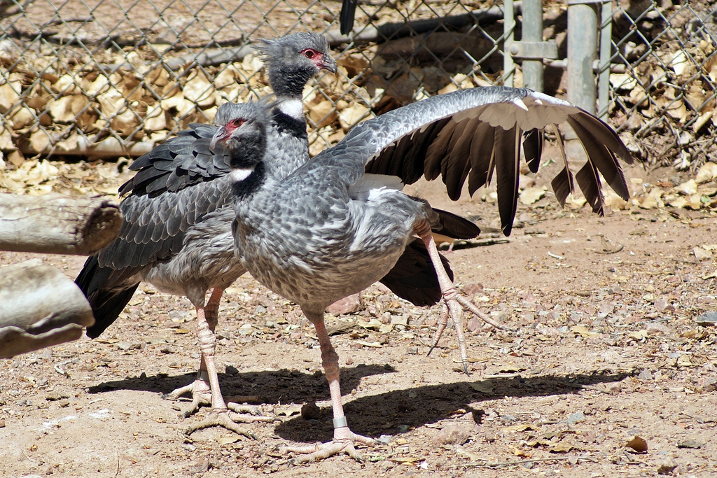 Two Southern Screamers at Phoenix Zoo, Arizona, USA.